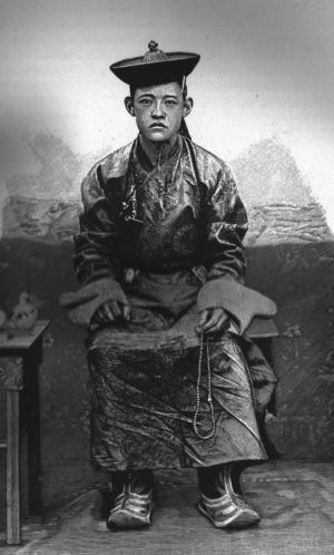 Depicted person: Bogd Khan – Great Khan of Outer Mongolia